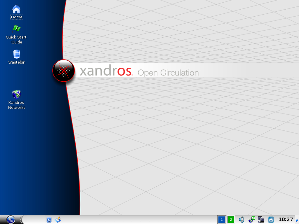 Xandros Desktop 4.1 OCE